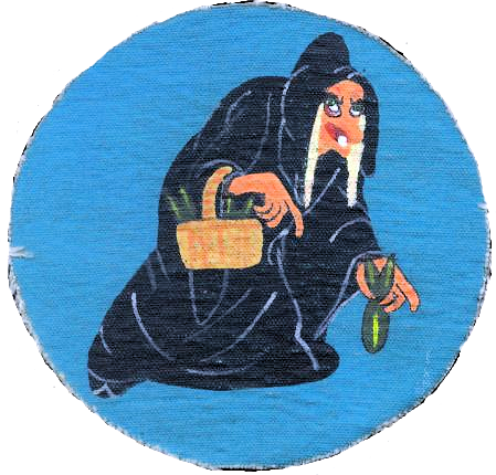 AAF Bombardier School Deming Field, New Mexico-Patch